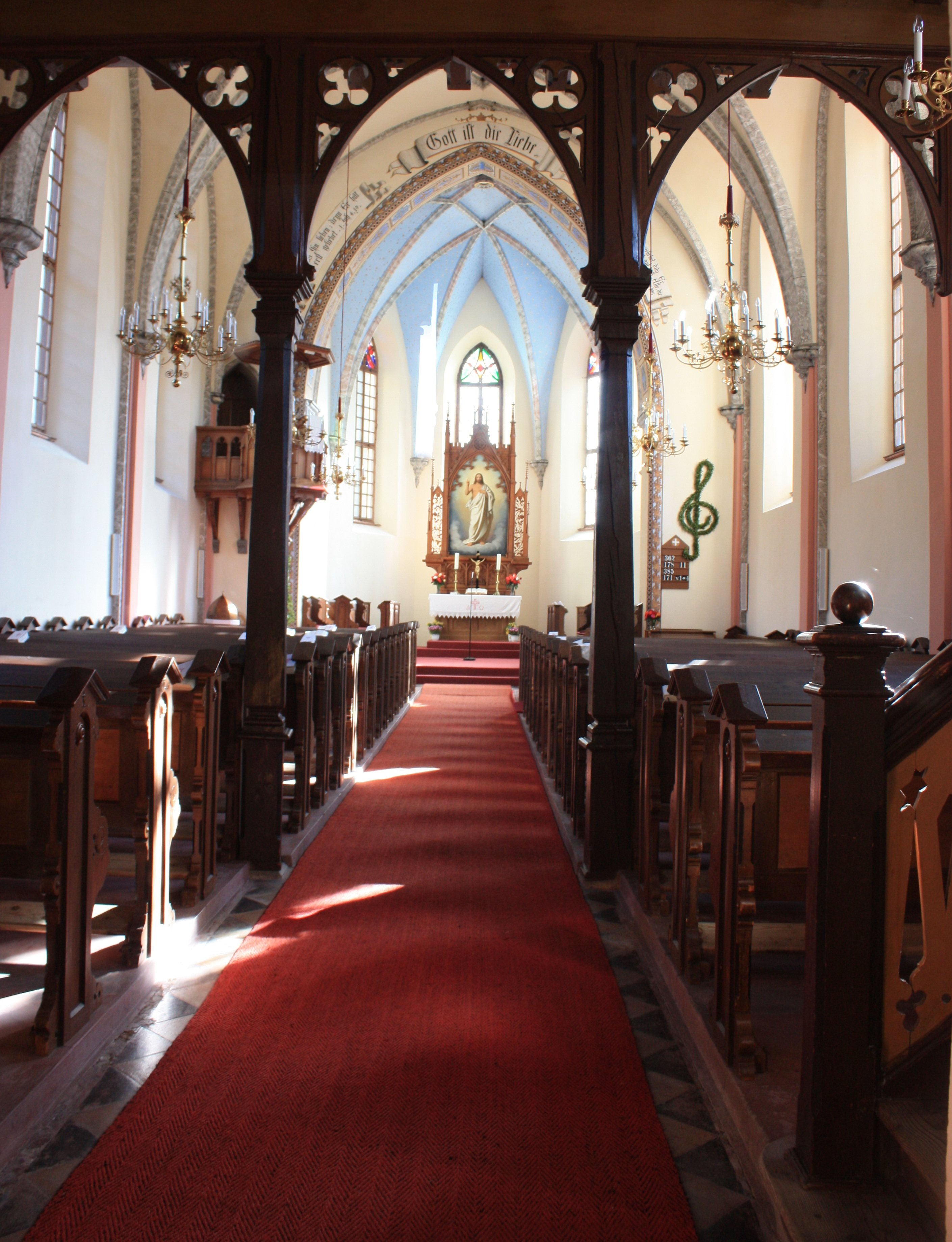 Lutherian church in the village Weißbriach in the community Gitschtal - Interior